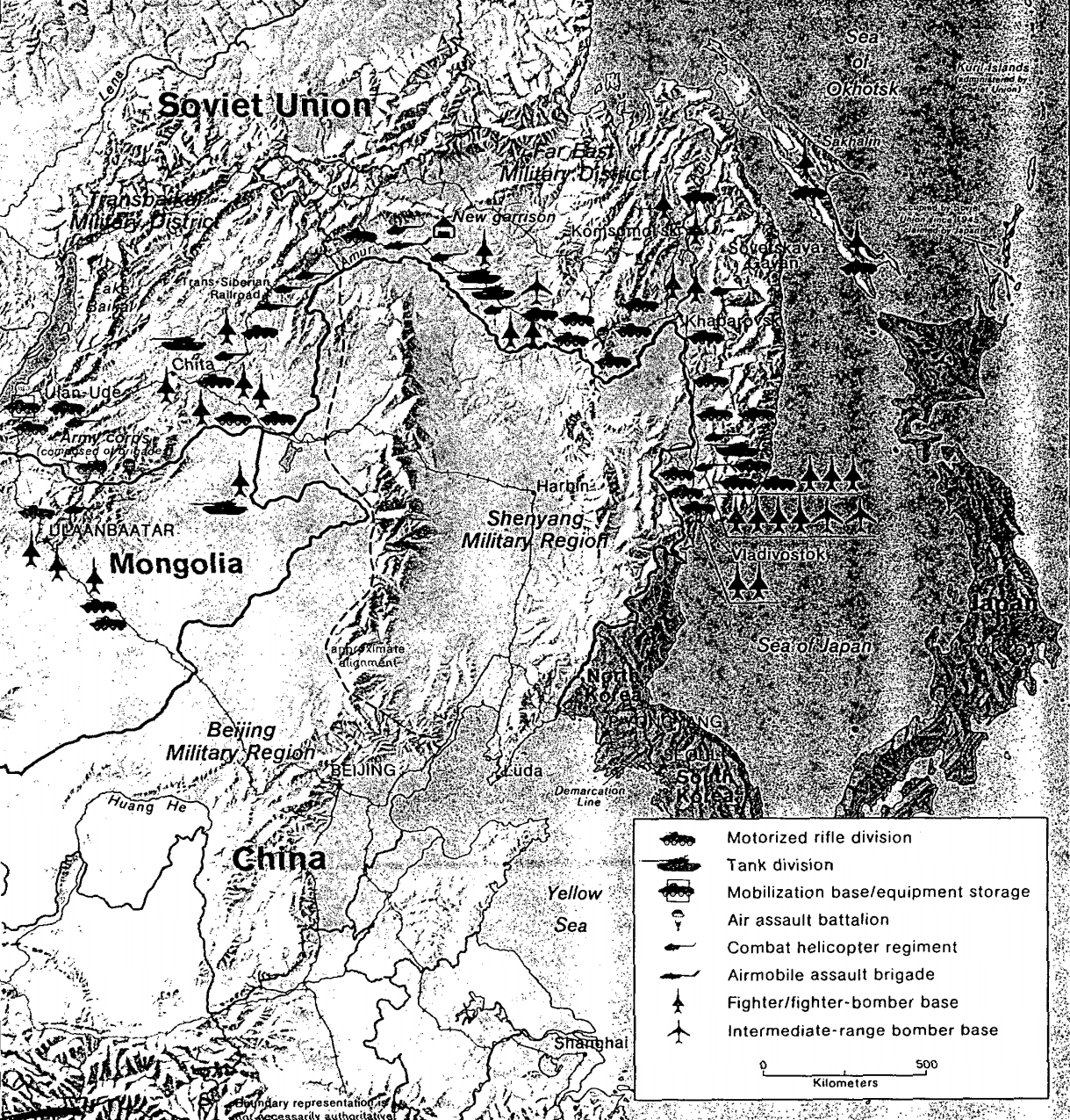 The Secret map of Key Soviet Forces Opposite Norteastern China (Soviet Military Capabilities Against Japan and Chinese Shenyang Military Region).